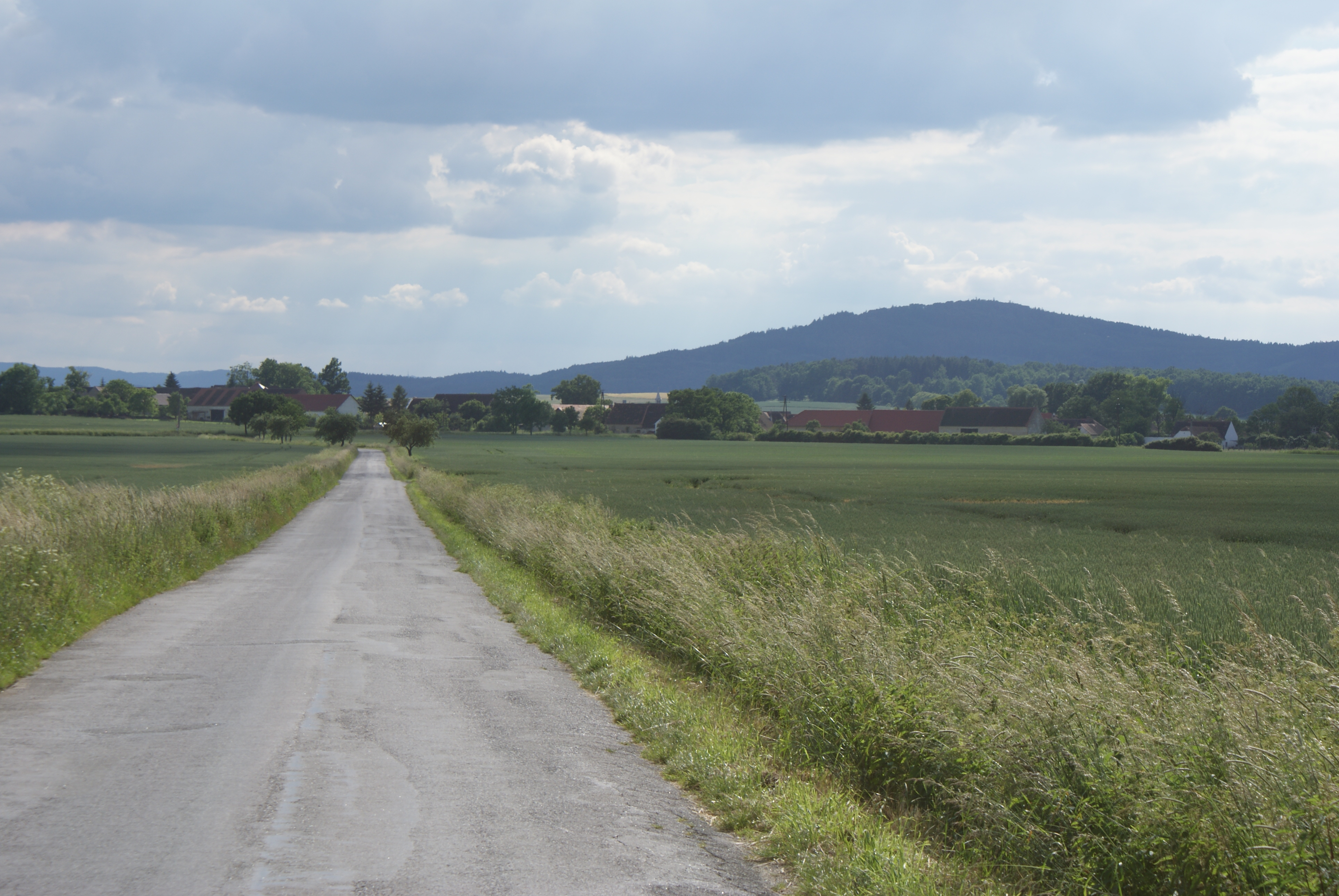 Chvaletice, a village in Písek district, Czech Republic, general view. Česky: Chvaletice, okres Písek, celkový pohled